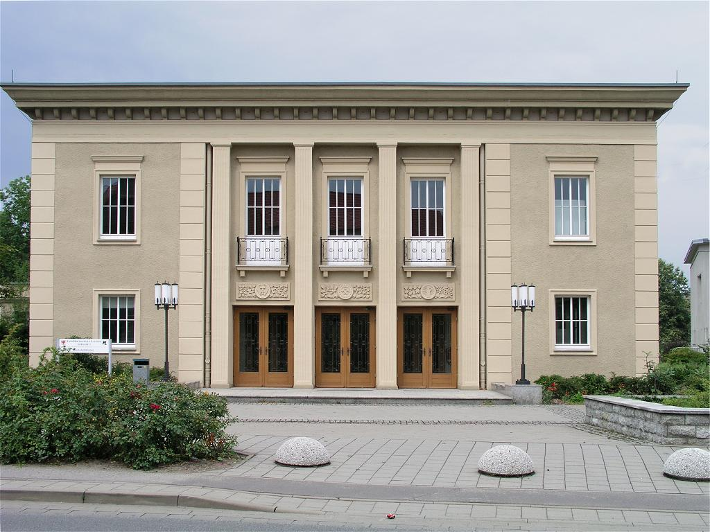 Senftenberg, Brandenburg, Germany: technical highschool, photo 2003